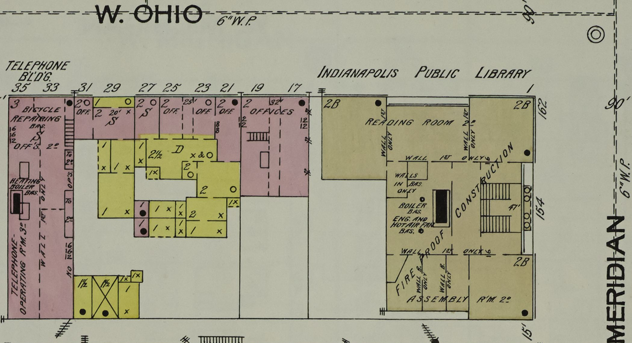 1898 Vol. 1. 115 Sheet(s). Key map to edition. Bound.